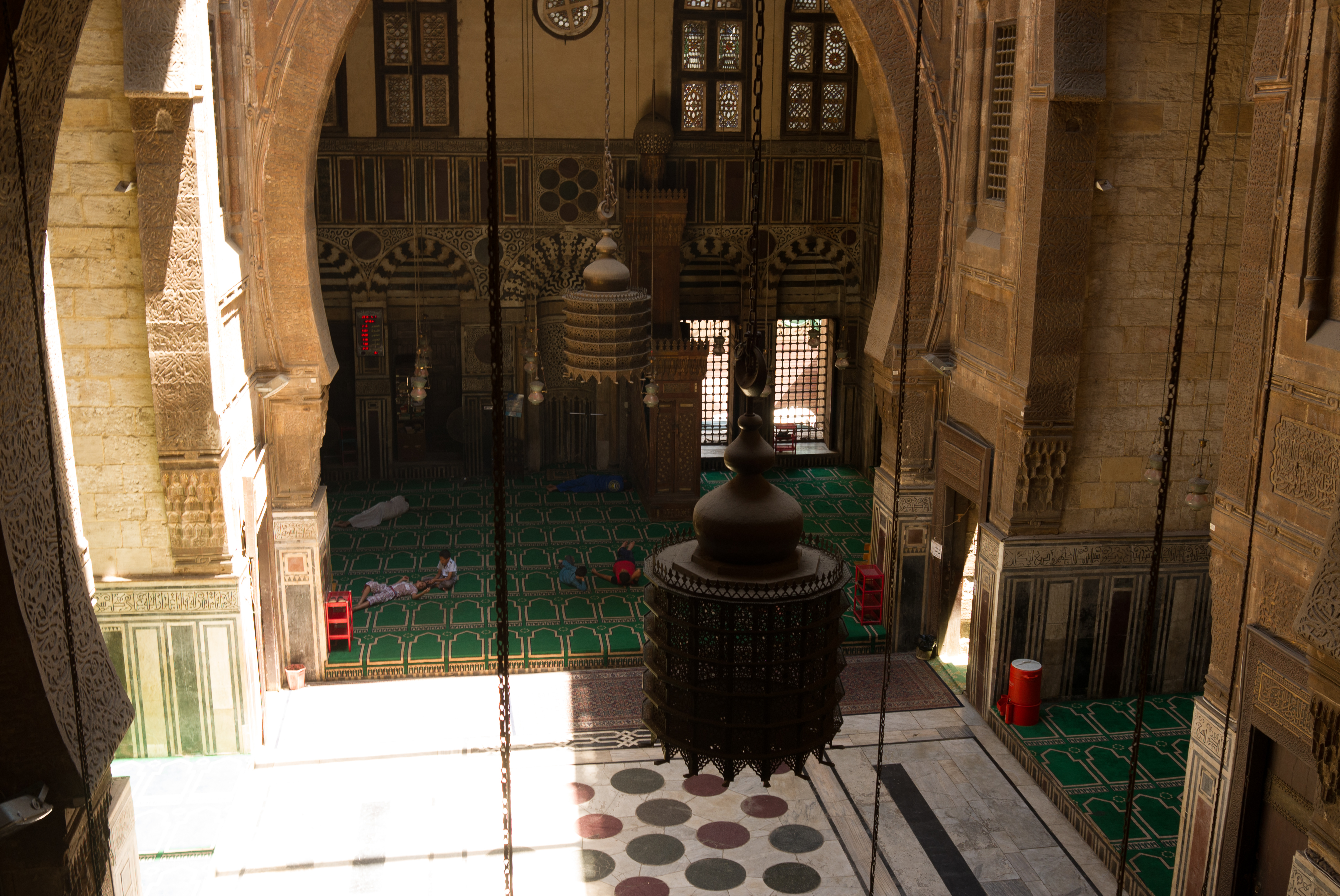 Inside the Mosque of the Al-Ghouri Complex, Cairo, Egypt